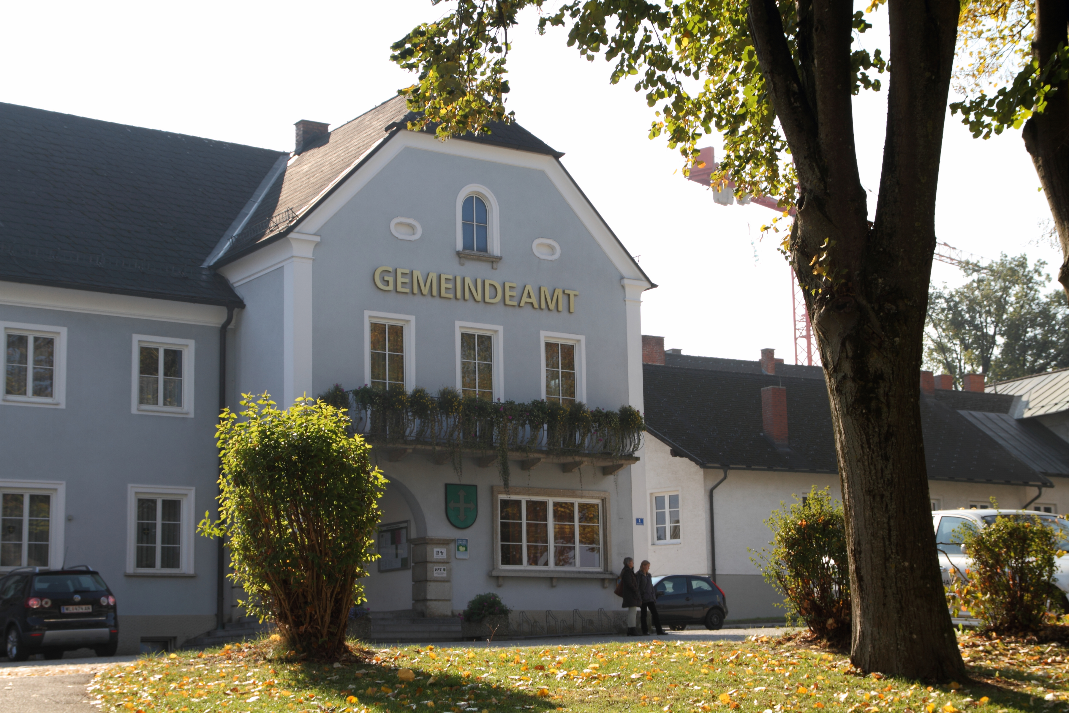 Municipality office of Sattledt.